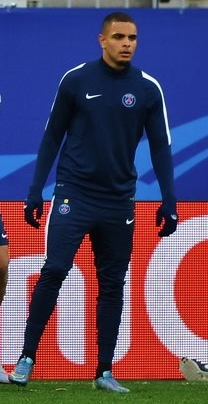 Layvin Kurzawa